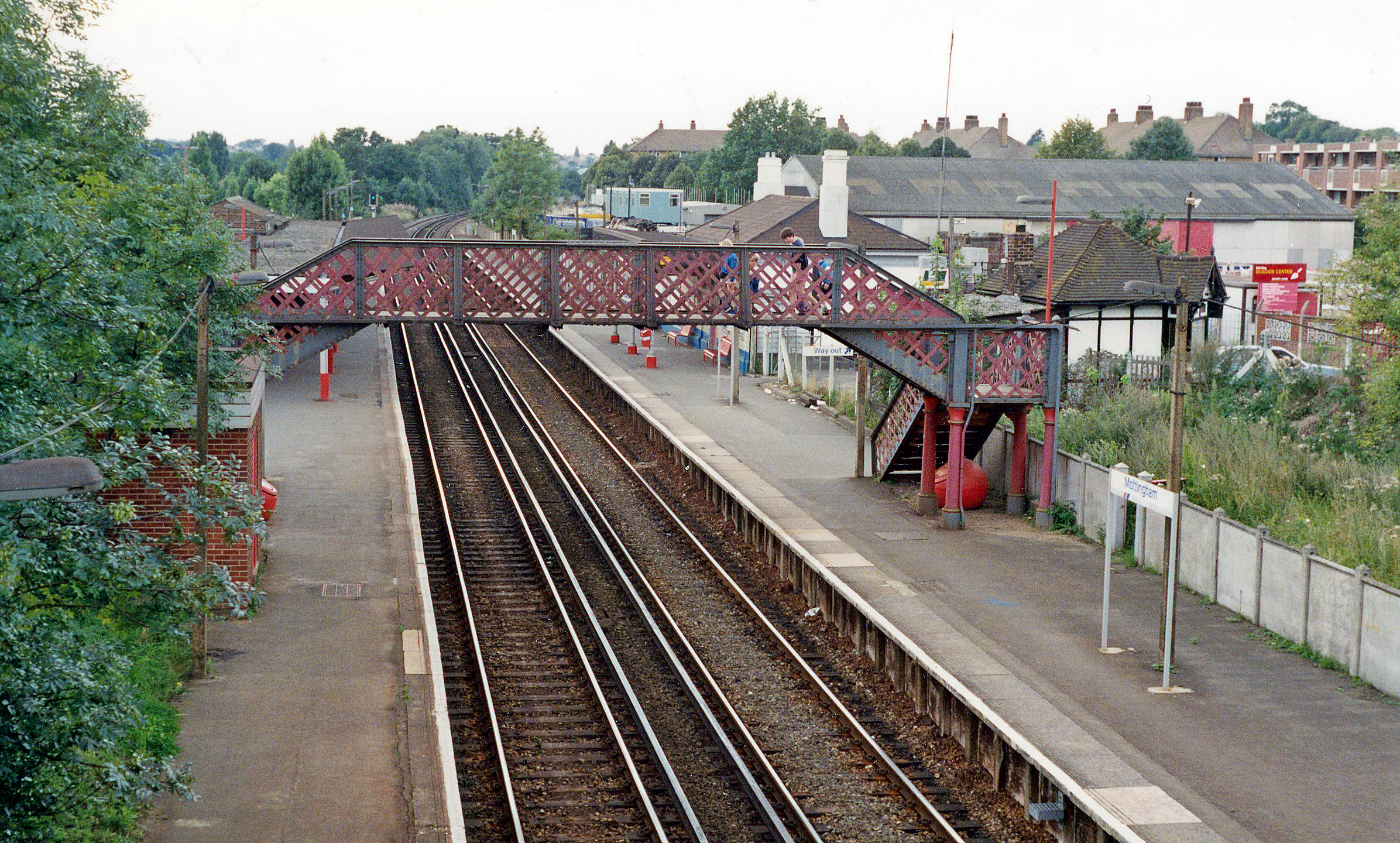 Mottingham station, 1991. View westward, towards Hither Green and London: ex-SE&CR Charing Cross/Cannon Street - Dartford via Sidcup line